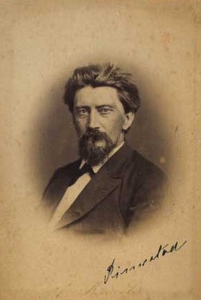 Christian Rimestad (1830-1894), Danish Supreme Court judge and politician, MP